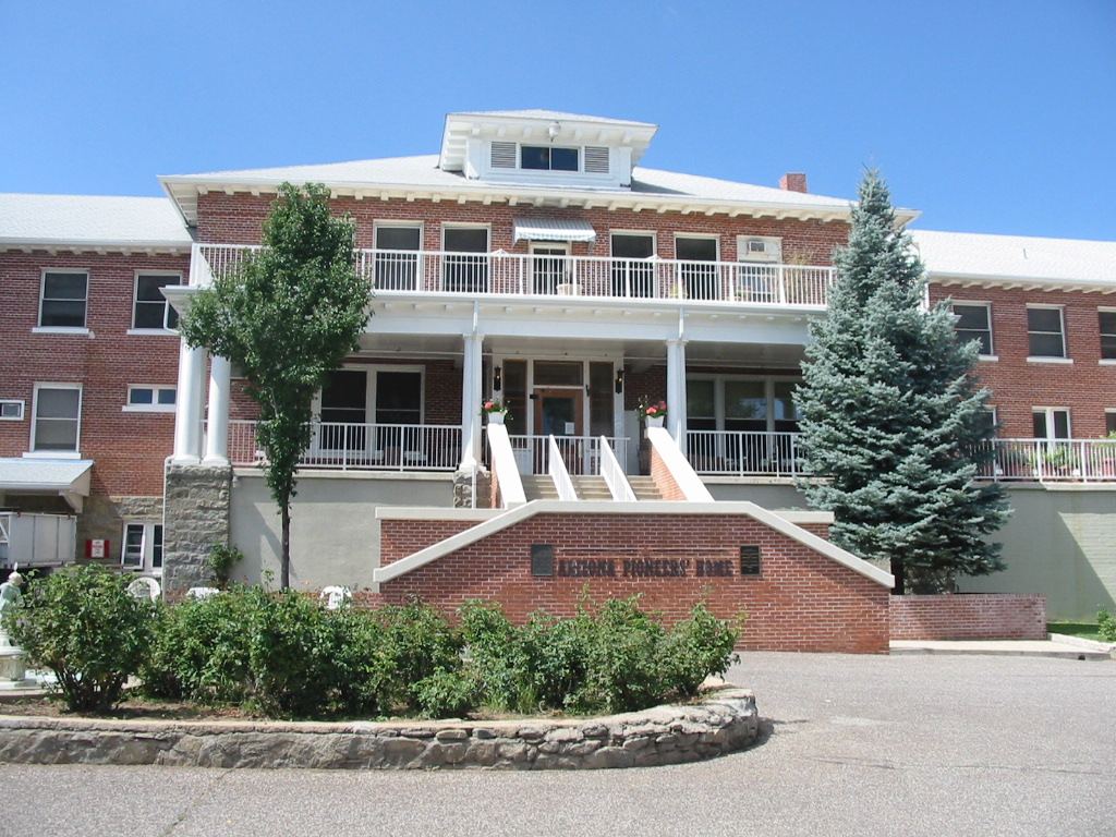 Front view of Arizona Pioneers' Home.